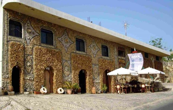 Ain W Zain Natural Grotto, entrance